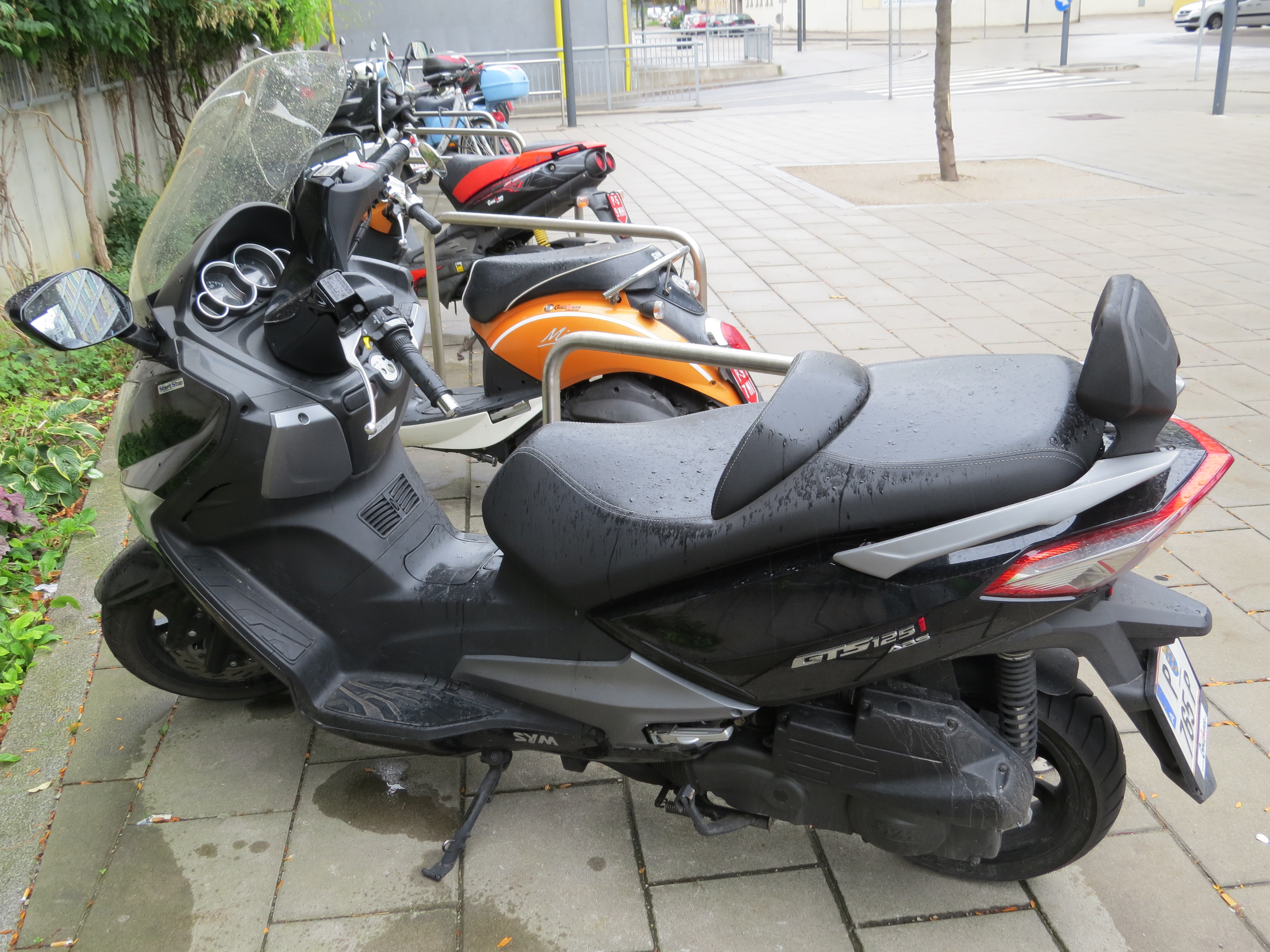 SYM GTS 125i at main train station St. Pölten, Austria